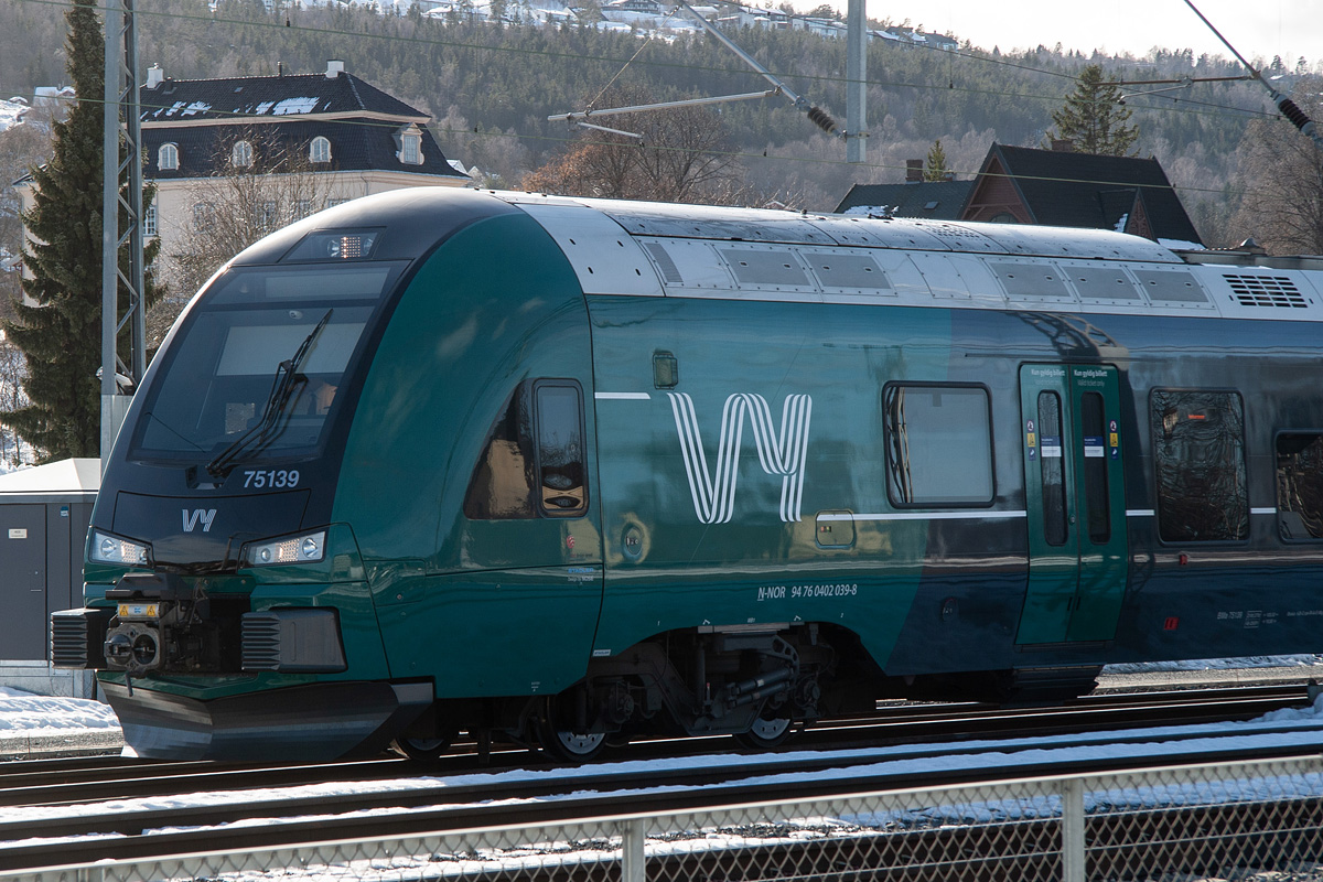 NSB EMU 75-59 parked at Sundhaugen in Drammen, with the livery of Vy, the new corporate identity that will be used from 24 April 2019.